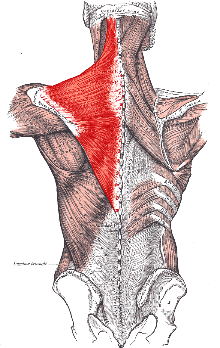 Muscles connecting the upper extremity to the vertebral column.